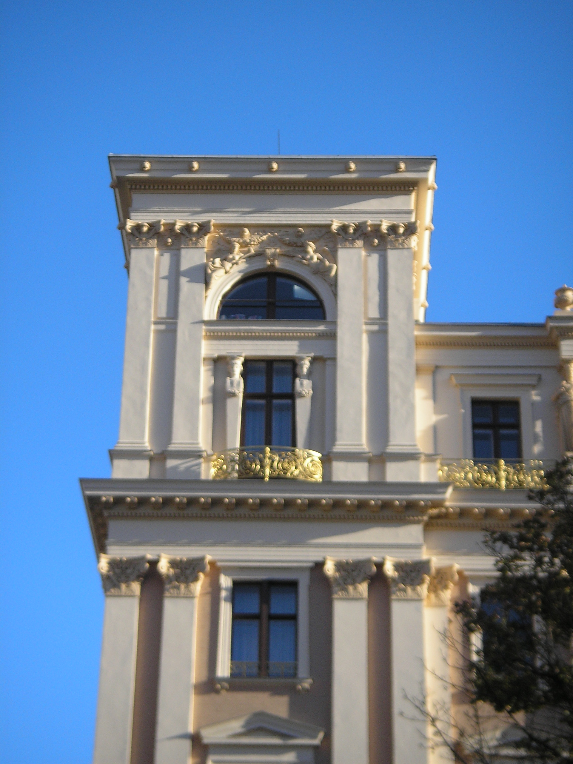 Image of a detail of the Palais Ephrussi in Vienna.